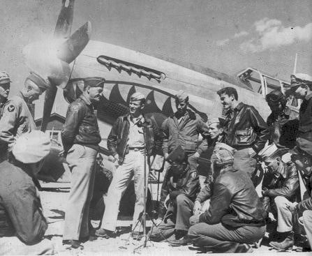 General Chennault converses with his men : pilots of 23d Fighter Group. P-51 Mustang in background.